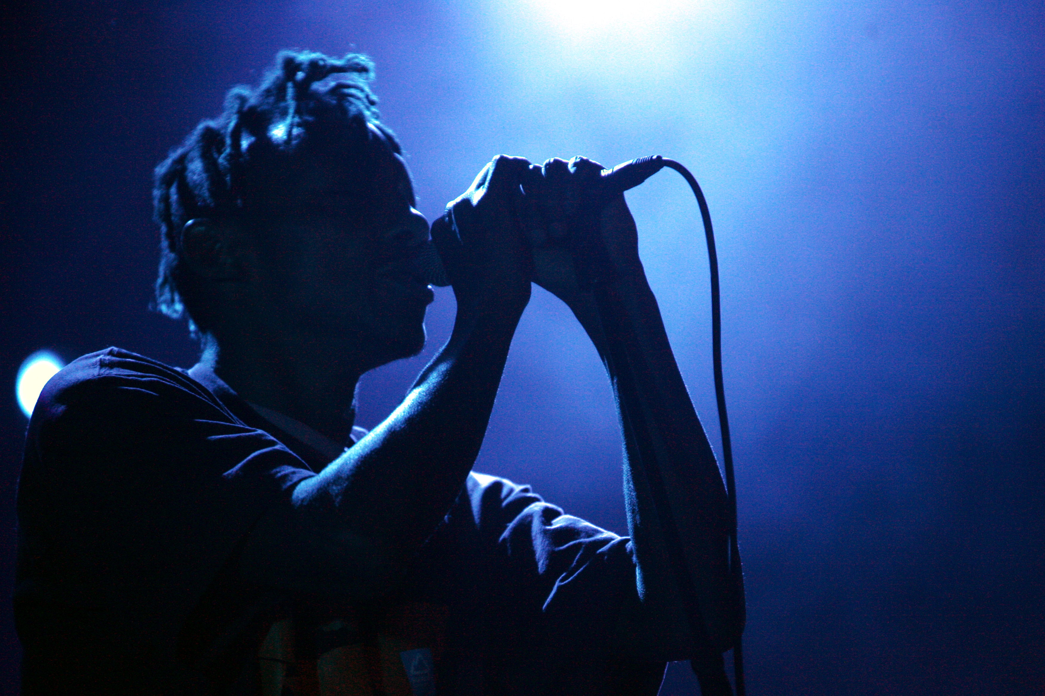 Tricky at Pully For Noise festival 2008